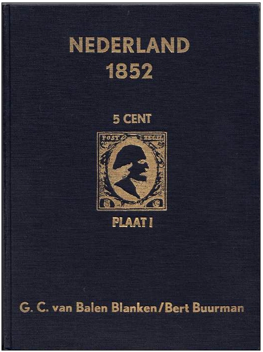 G. C. van Balen Blanken book cover.